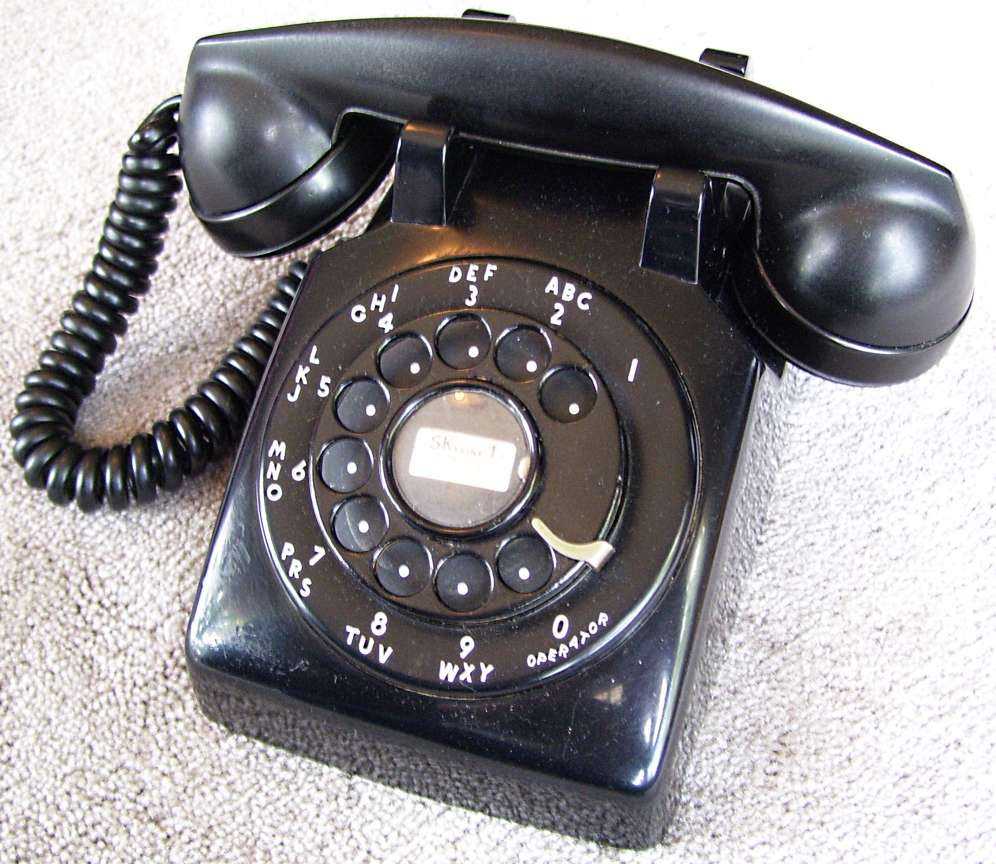 A Western Electric Model 5302 telephone from own collection. Taken by ProhibitOnions, 2007.